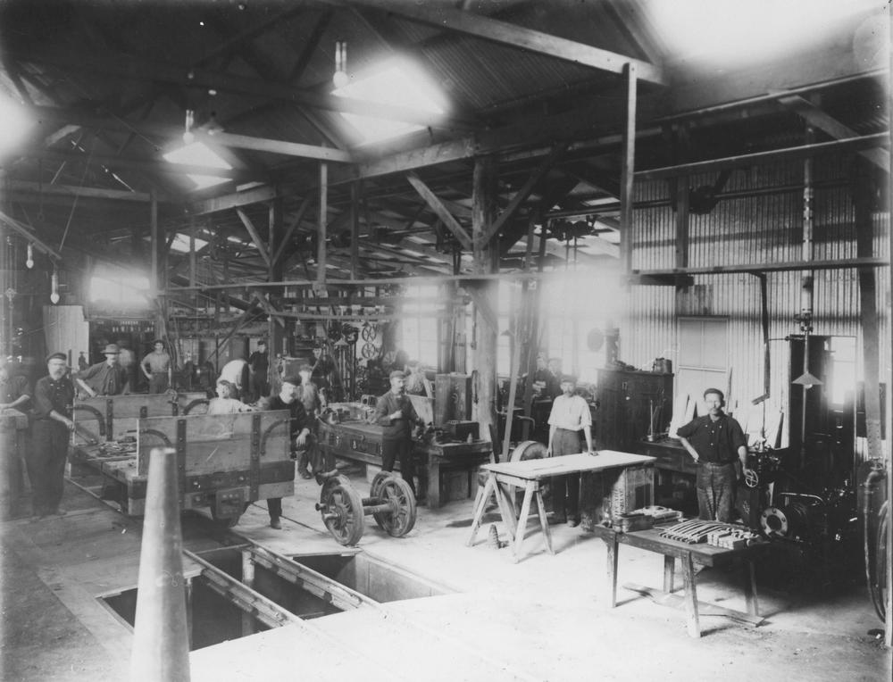 Inside the fitting shop, Irvinebank Company's tin treatment works, Irvinebank, 1909